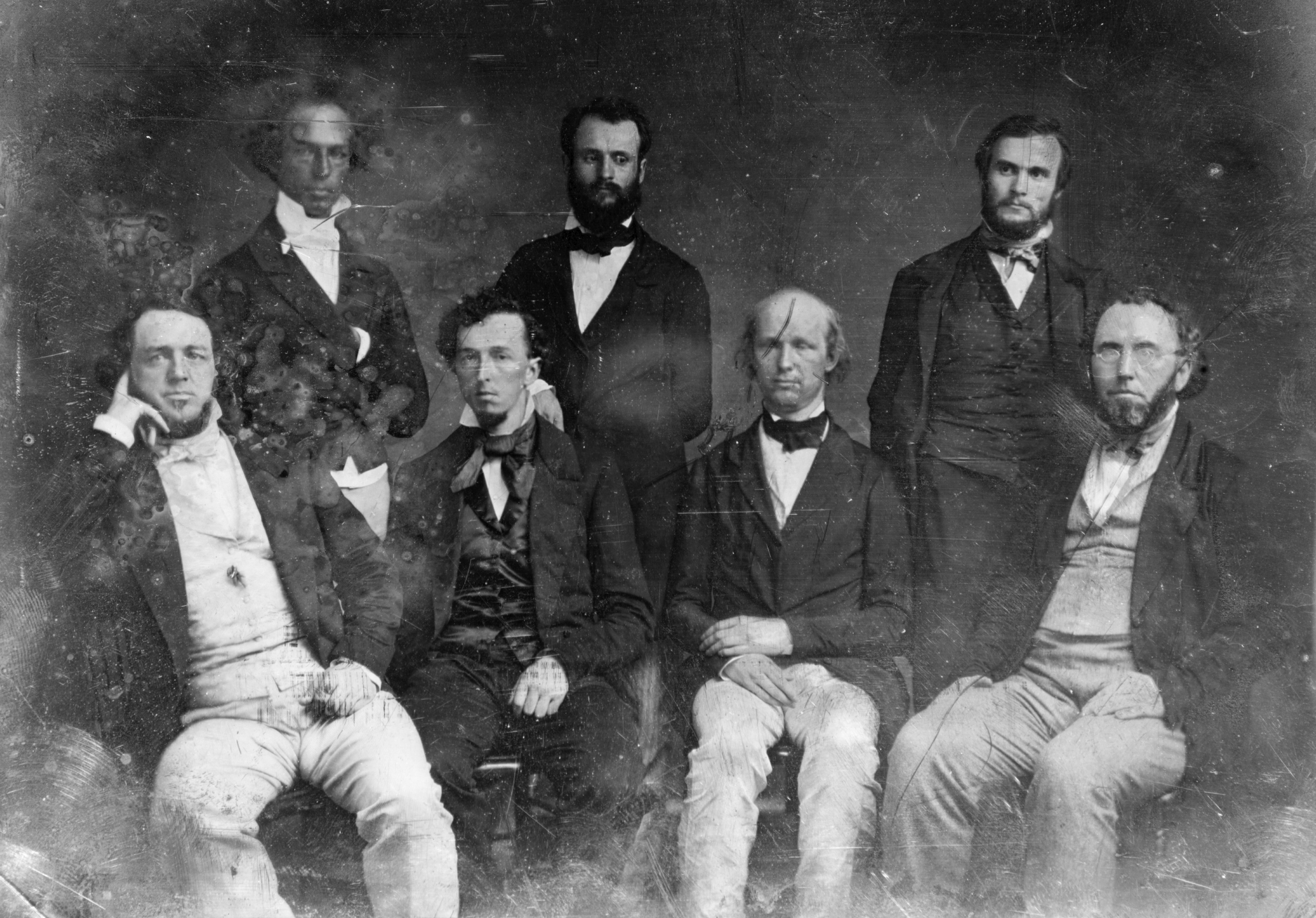 Library of Congress description: "Editorial staff of the New York Tribune. Seated, left to right: George M. Snow, financial editor; Bayard Taylor; Horace Greeley; George Ripley, literary editor; Standing, left to right: William Henry Fry, music editor; Charles A. Dana; Henry J. Raymond. Identified and dated by comparison with known likenesses: Greeley in Holden's dollar magazine, 1849; Dana in Scribner's magazine, 1895, p. 442; Raymond in Frank Leslie's illustrated newspaper, Aug. 23, 1856, p.176. The identification of Snow is based on his inclusion in Brady's list of those in this picture and his apparent age. The identifications of Ripley and Fry are based on their inclusion in Brady's list and resemblance to identified portraits of them as much older men. Harold Francis Pfister, Facing the light : historic American portrait daguerreotypes (Smithsonian Institution Press, 1978), page 323, identifies the men as "[Horace Greeley] with six journalists of the Tribune staff, including: Bayard Taylor (seated, second from left), George Ripley (seated, right), William Henry Fry (standing, right), and Charles A. Dana (standing, center)."